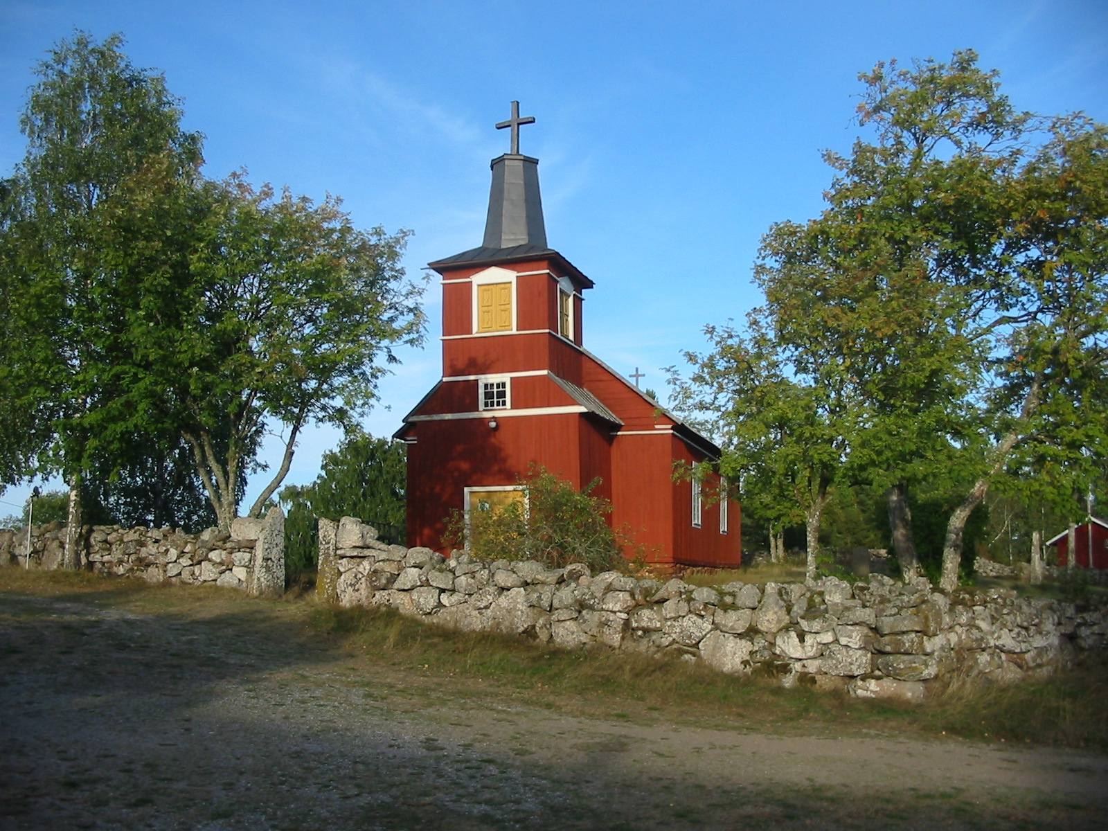 Untamala church in Untamala, Laitila, Finland